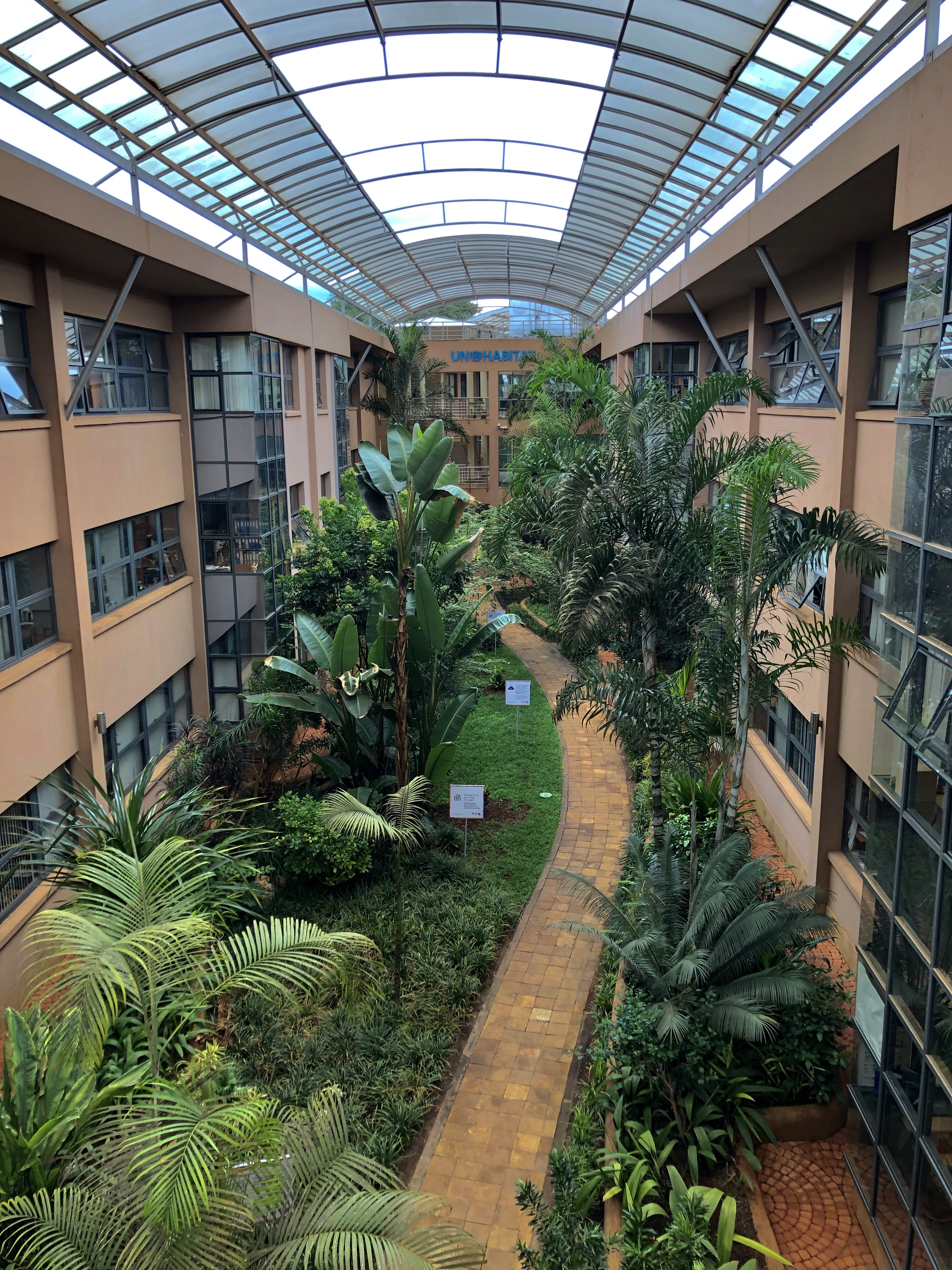 UN-Habitat offices at the headquarters in Nairobi